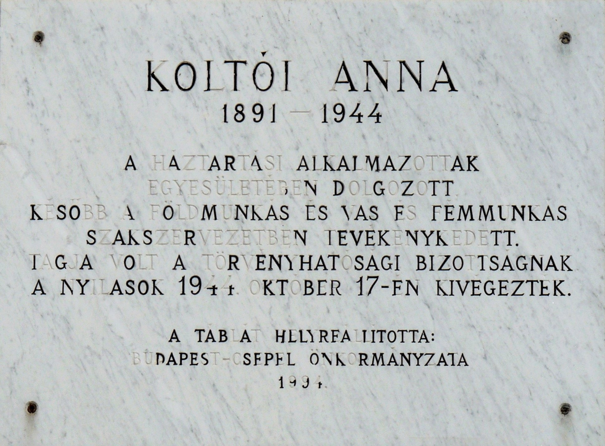 Commemorative plaque of Anna Koltói, Budapest District XXI, Vermes Miklós Street No 12